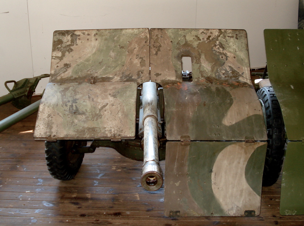 Polish 37 mm anti-tank gun wz. 1936 (a license copy of Swedish Bofors 37 mm anti-tank gun) displayed in Finnish Tank Museum (Panssarimuseo) in Parola. View from the front. The gun was used during the war by the Finnish army. The bottom-left part of the gun shield is missing. Photo taken on July 14, 2006. Source: Photo by me, User:Balcer.